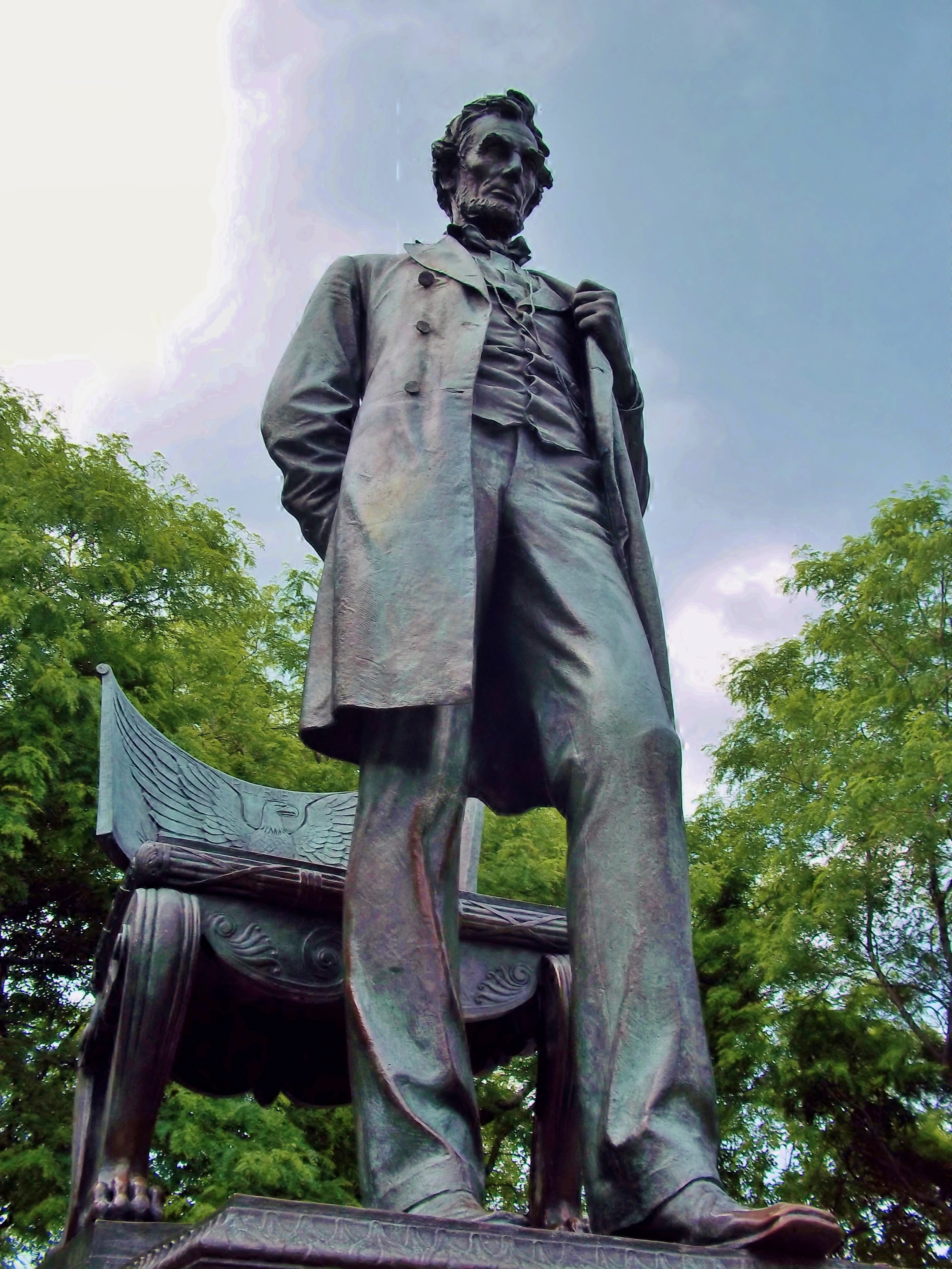 "Abraham Lincoln: The Man" monument in Lincoln Park Chicago. Abraham Lincoln 16th President of the United States. Statue by Augustus Saint-Gaudens installed 1887